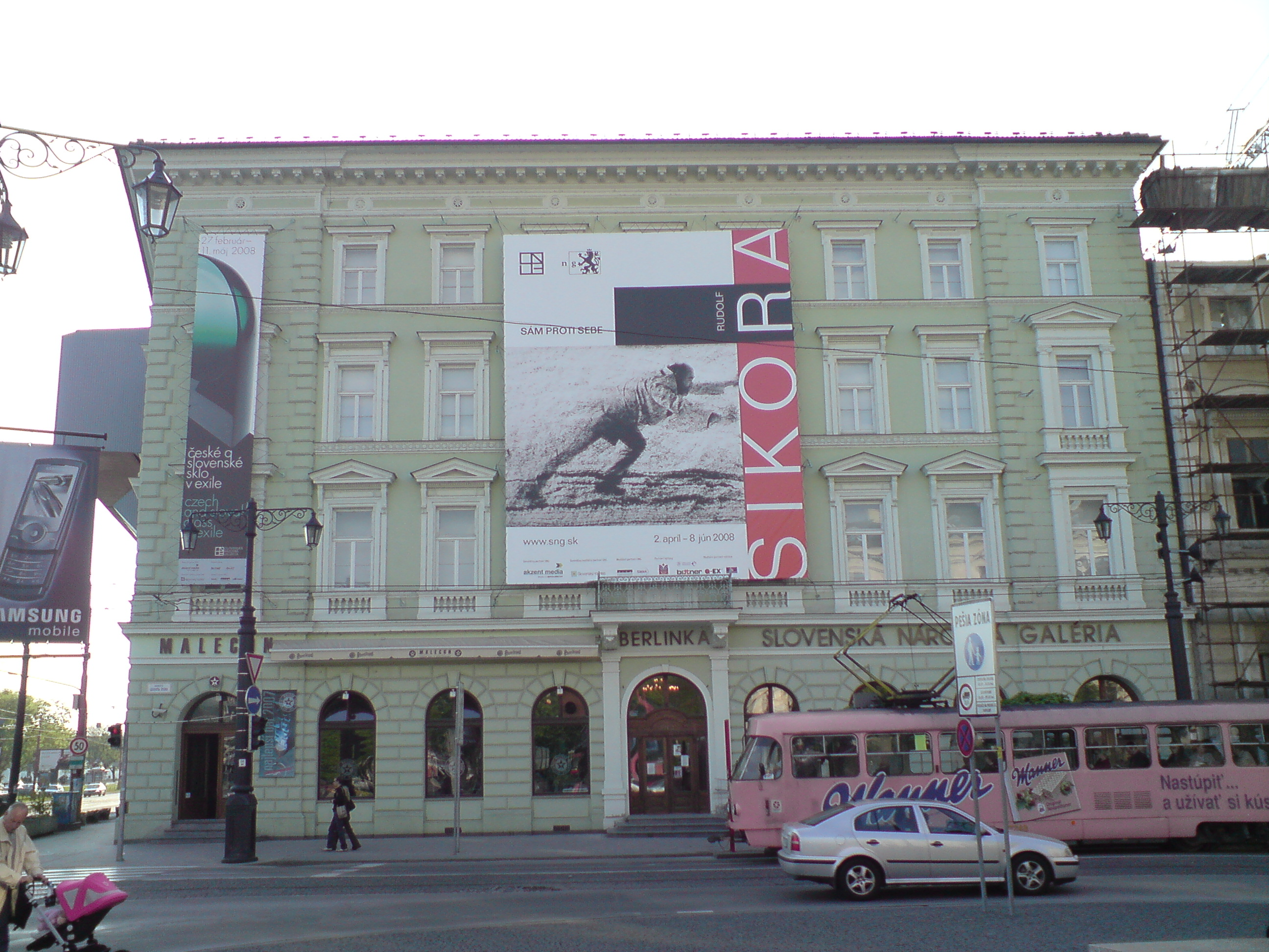 Esterházyho palác, Námestie Ľudovíta Štúra, Bratislava This medium shows the protected monument with the number 101-193/2 in the Slovak Republic.